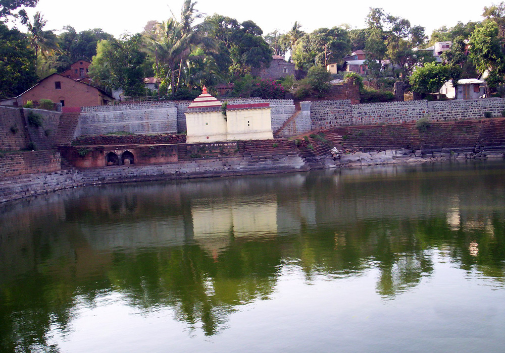 nilesh